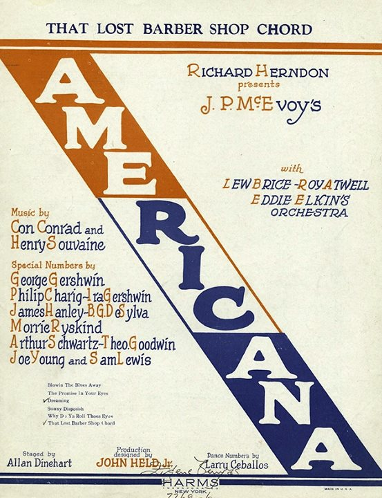 Sheet music cover to the song "That Lost Barber Shop Chord" by George and Ira Gershwin. It was used in the 1926 revue Americana. The song parodies "The Lost Chord" by Arthur Sullivan.